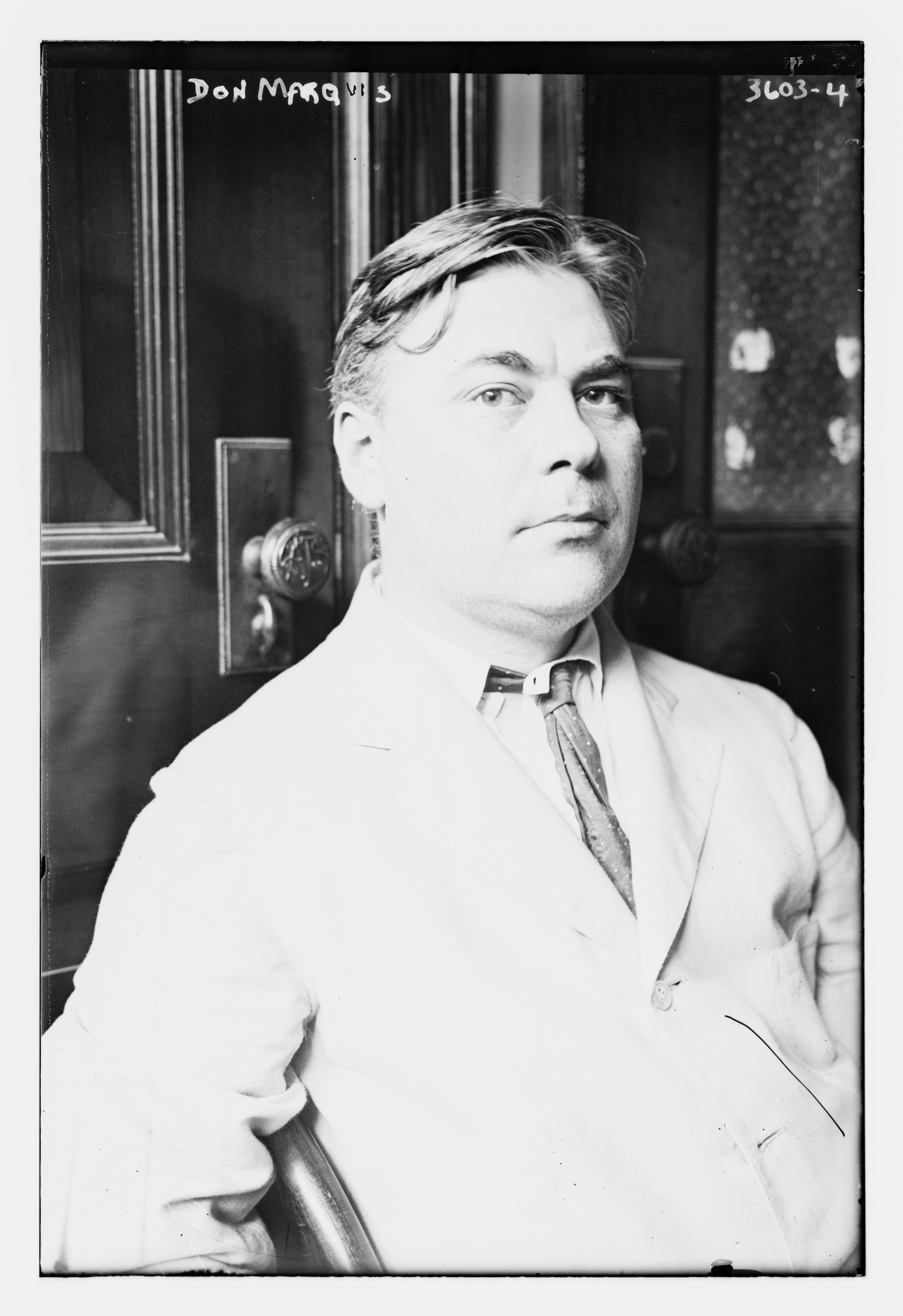 Portrait of author Don Marquis (Donald Robert Perry Marquis), taken sometime between 1910 to 1915.